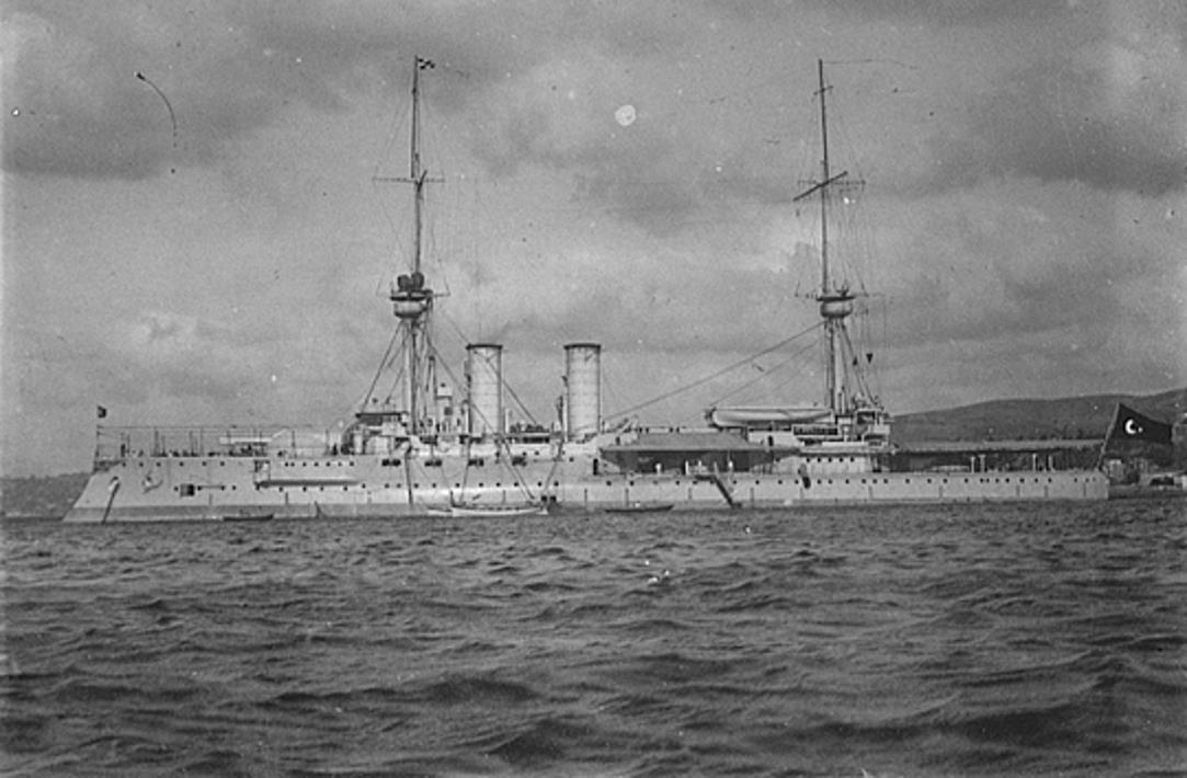 Barbaros Hayreddin the Ottoman battleship